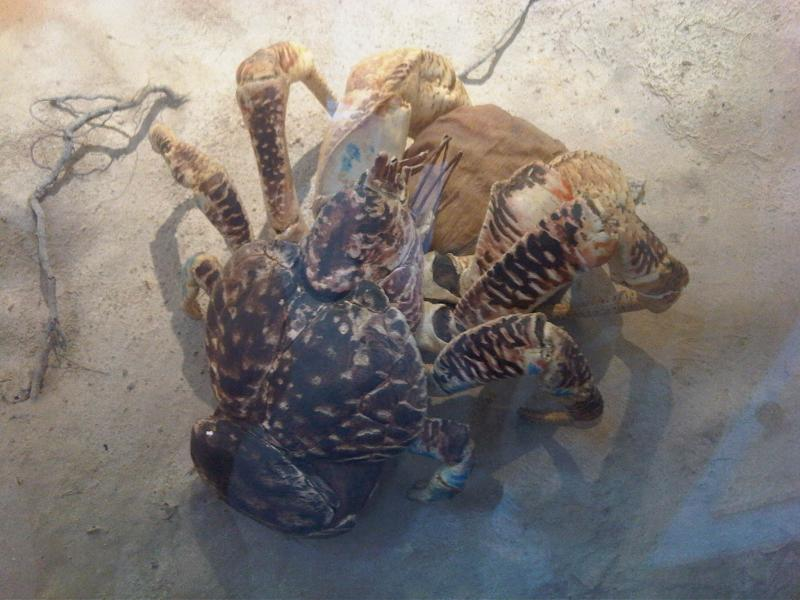 Coconut crab (Birgus latro) at the Natural History Museum in London, England.